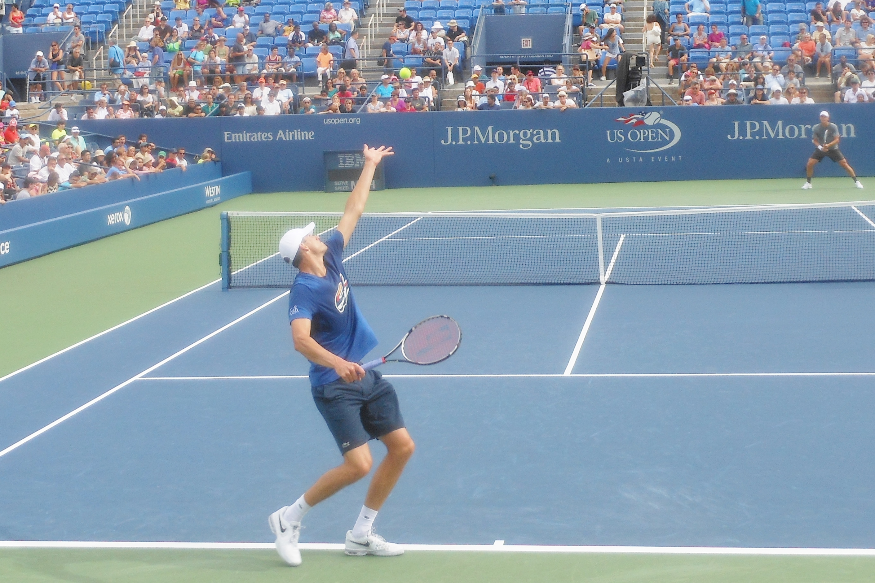 John Isner 2013 US Open